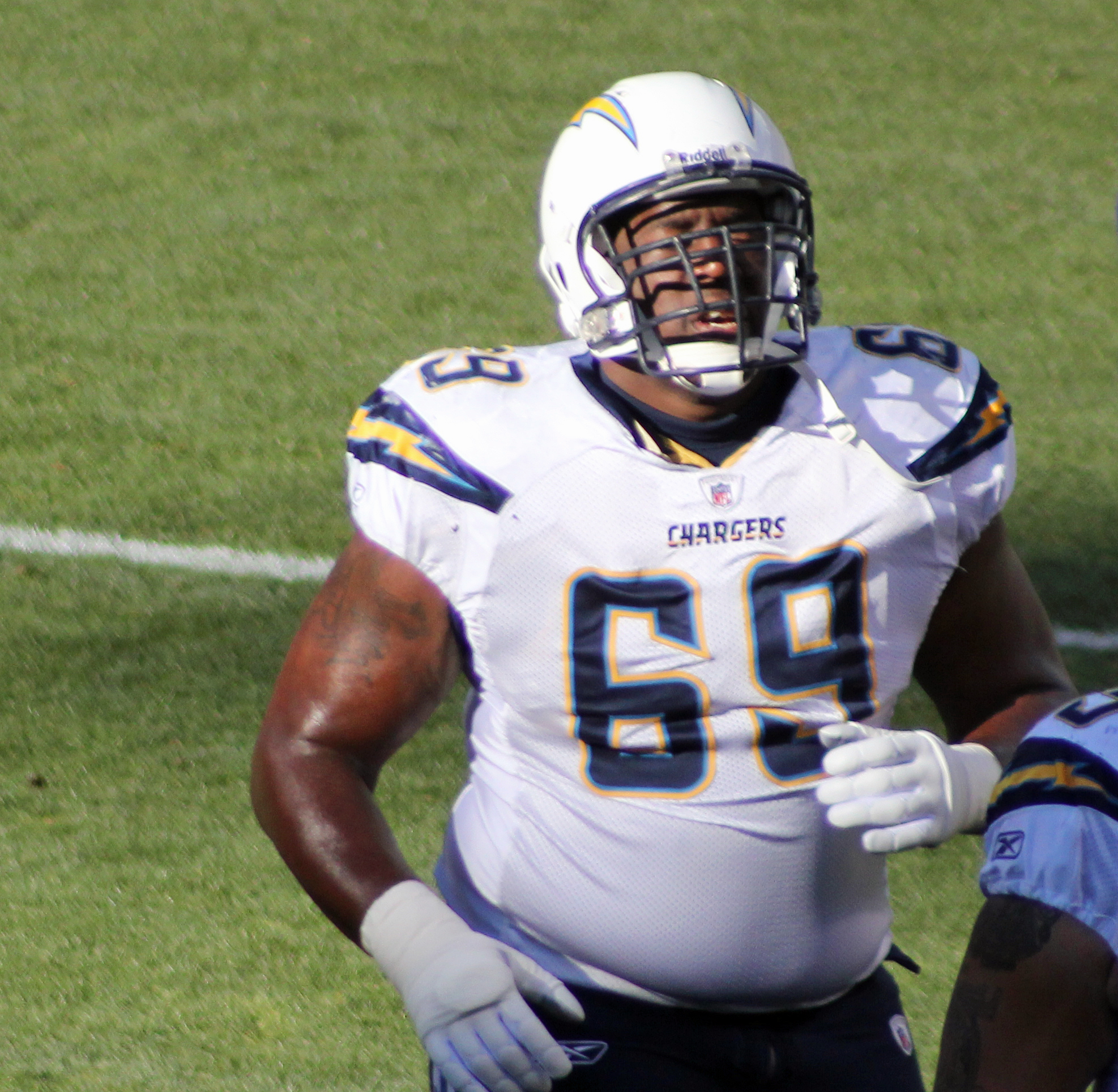 Tyronne Green, a player on the San Diego Chargers American football team.